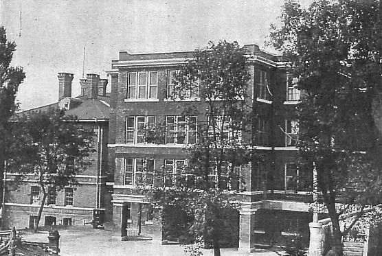 Severance Hospital circa 1930